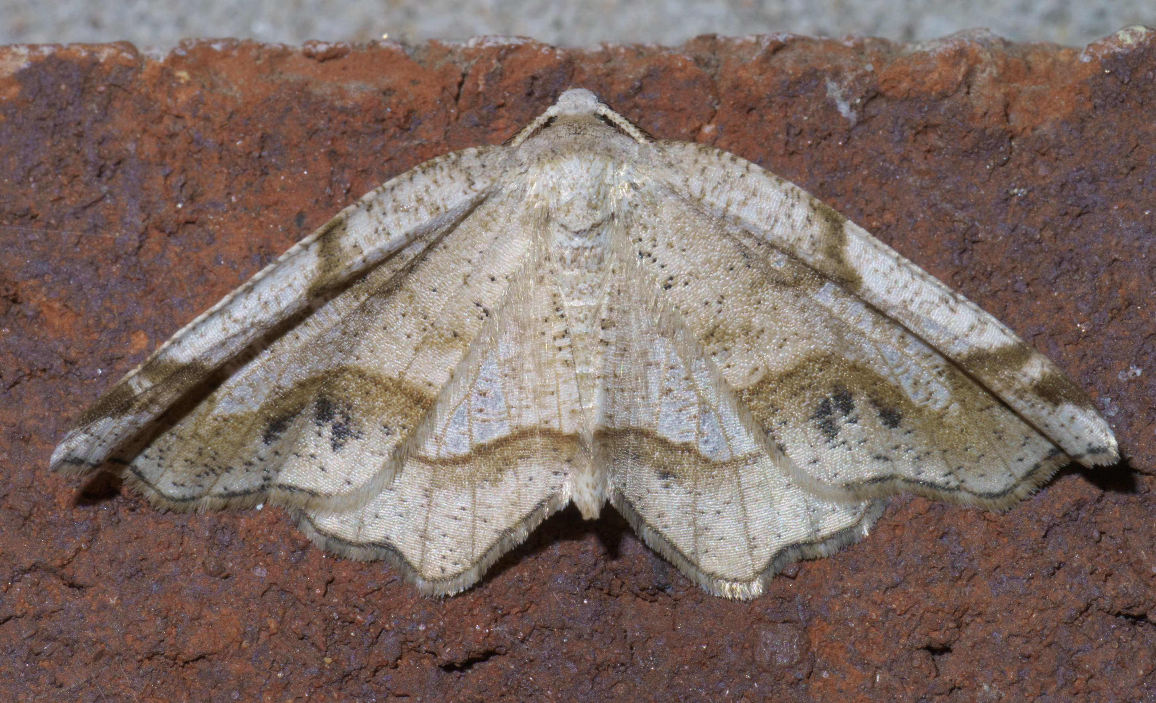 Probole amicaria, Friendly Probole - Hodges #6838, "After revision and DNA work (among numerous other approaches) on the genus by Tim Tomon, it was determined that there is only a single Probole species in North America, and so they have been lumped under the senior name, amicaria. At this point, there is no longer any separate species of nepiasaria, alienaria or nyssaria.", ID Confidence: 88